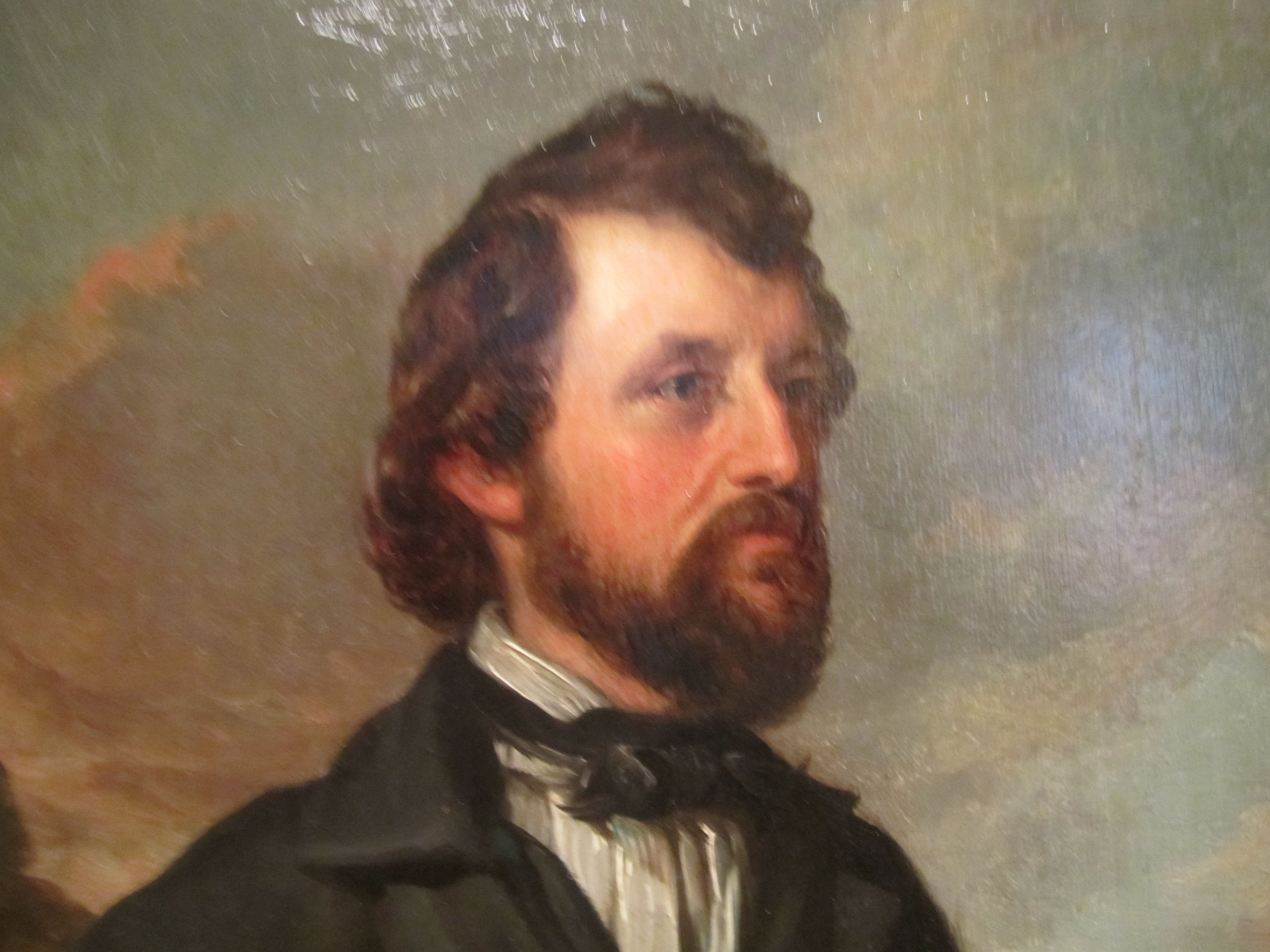 I took photo with Canon camera at National Portrait Gallery, Senator John C. Fremont of California. Public domain.